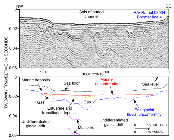 Segment of Boomer high-resolution seismic-reflection profile and interpretation from RV Rafael cruise 08034 line 4 across the buried channel that extends seaward beneath Edgartown Harbor. Estuarine and transitional deposits fill the buried channel, and some of these deposits contain gas-charged sediment.